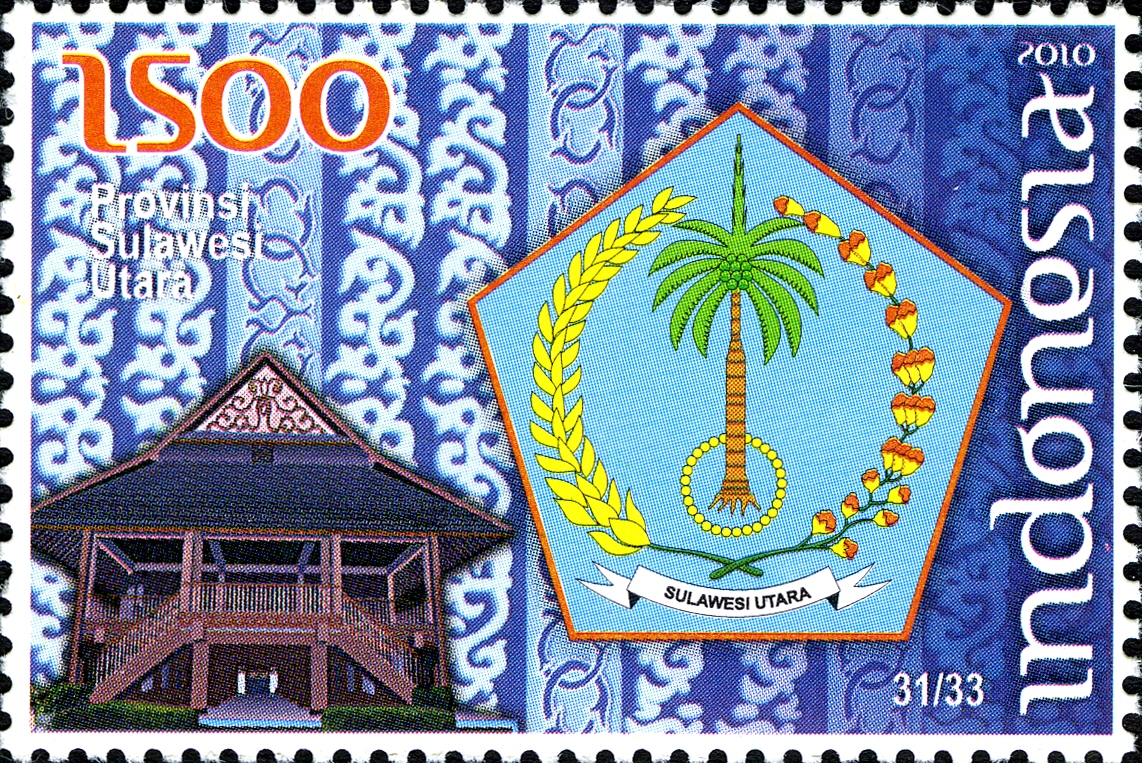 Stamps of Indonesia